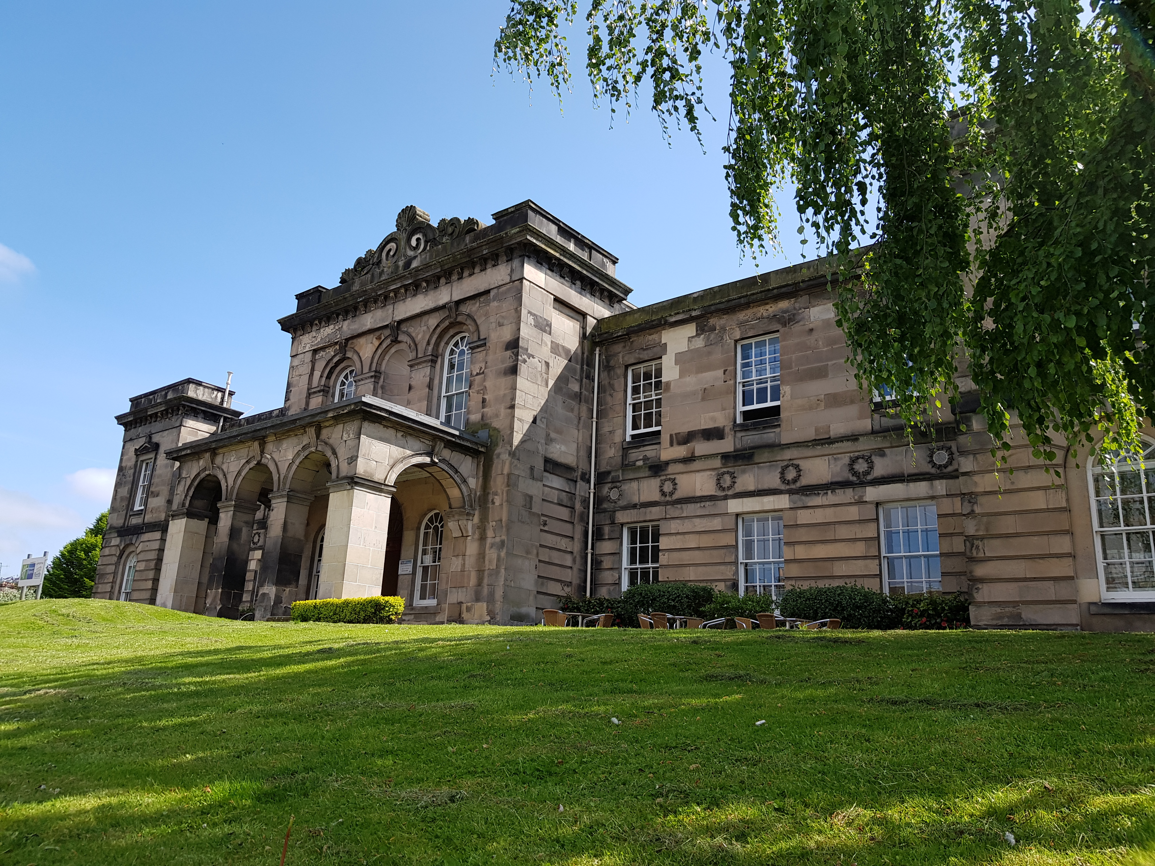 Front view of the AK Bell Library in Perth, Scotland